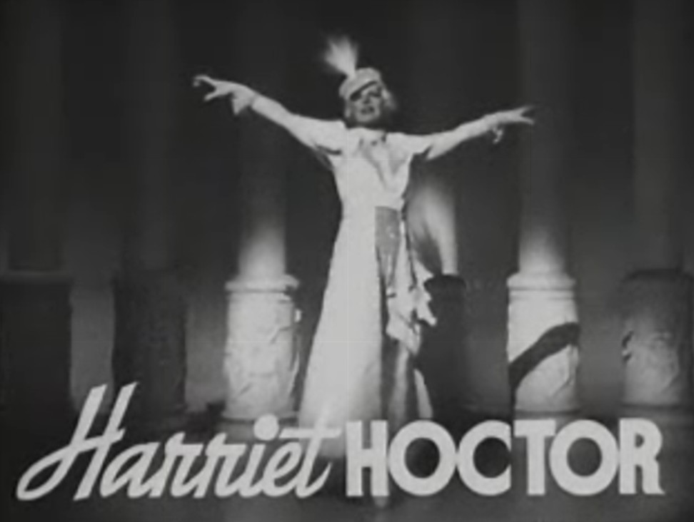 Cropped screenshot of Harriet Hoctor from the trailer for The Great Ziegfeld